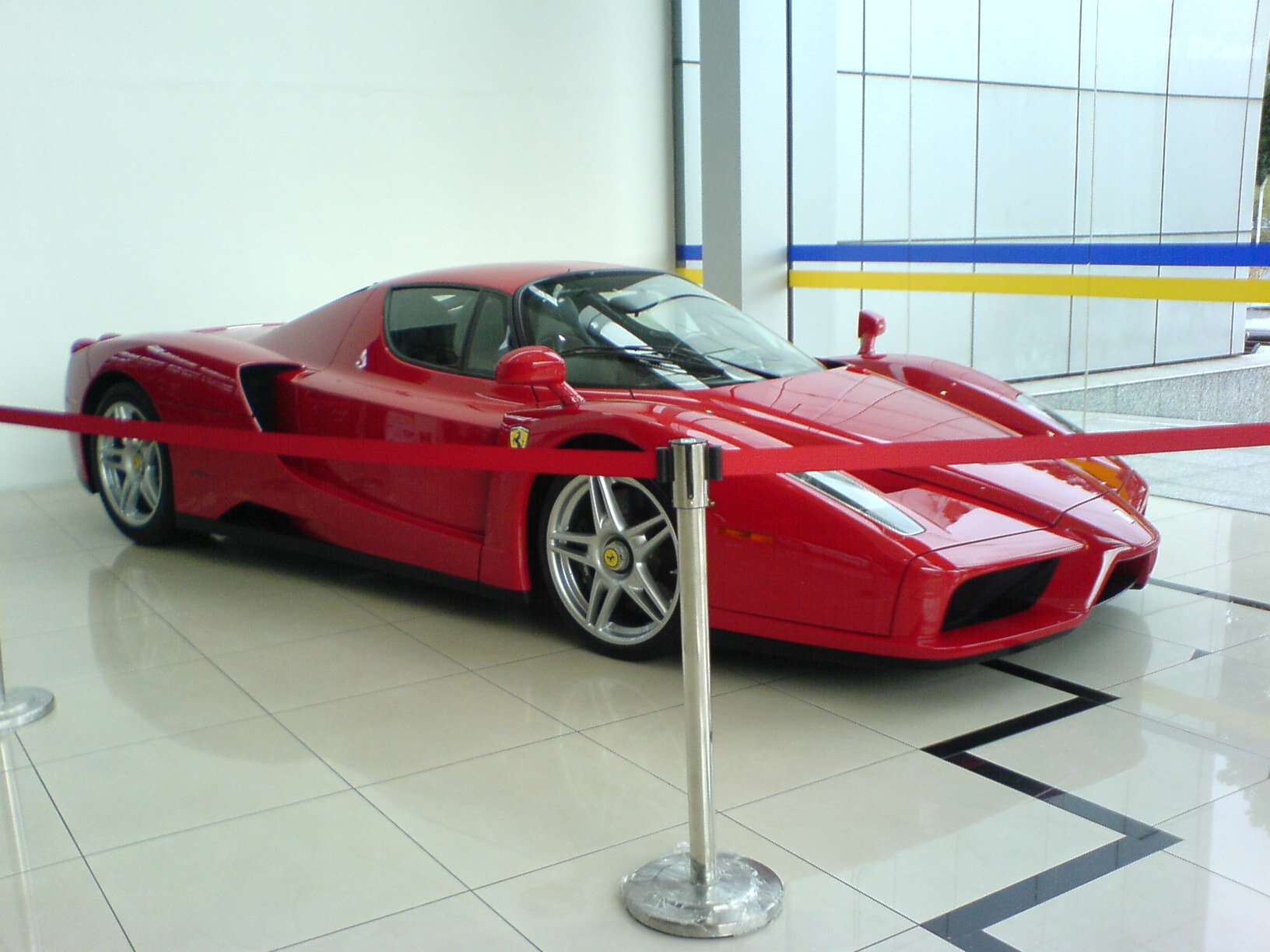 A Ferrari Enzo in naza World, petaling Jaya.